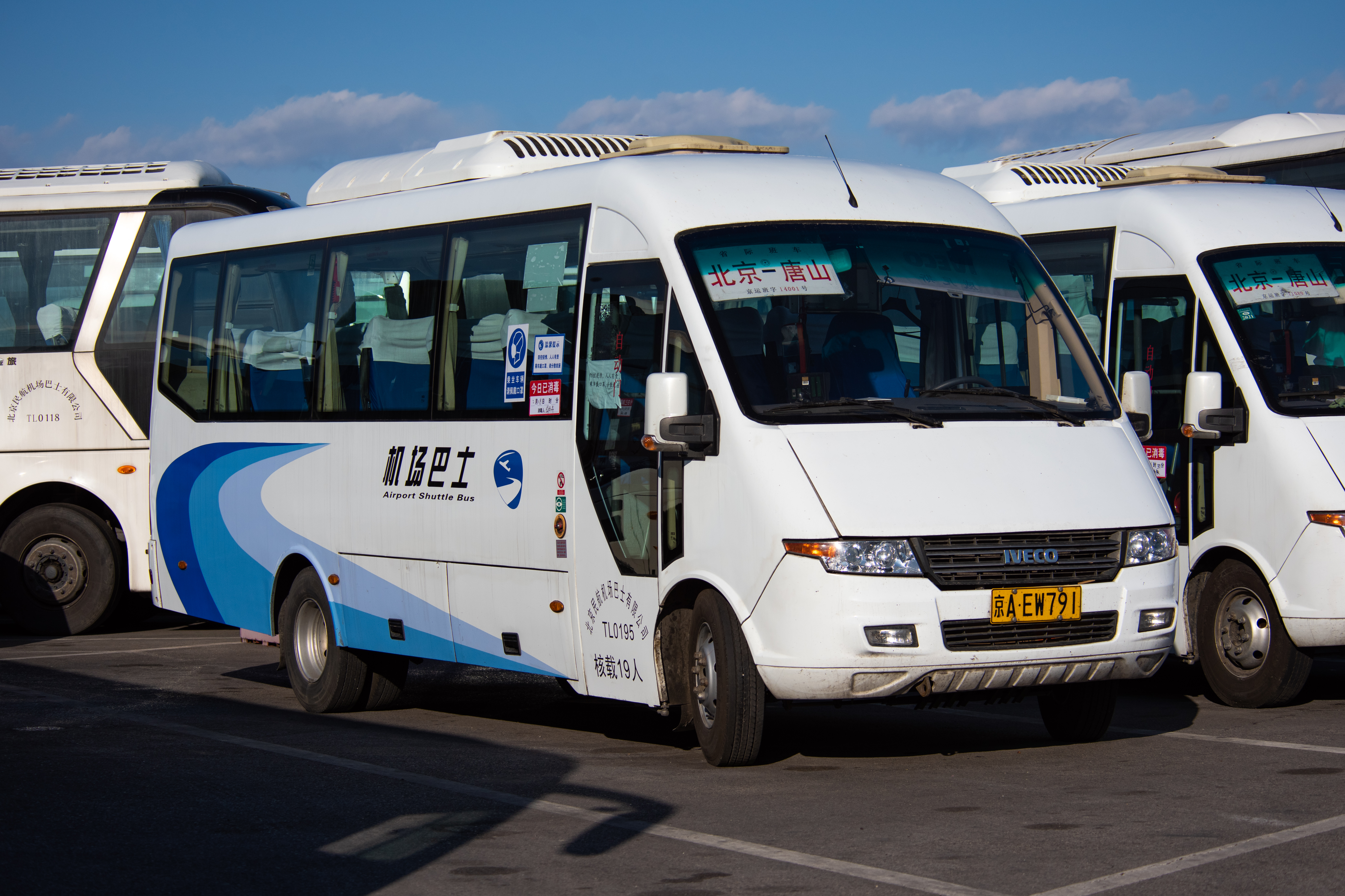 This is a Nanjing Iveco NJ6765LC1.